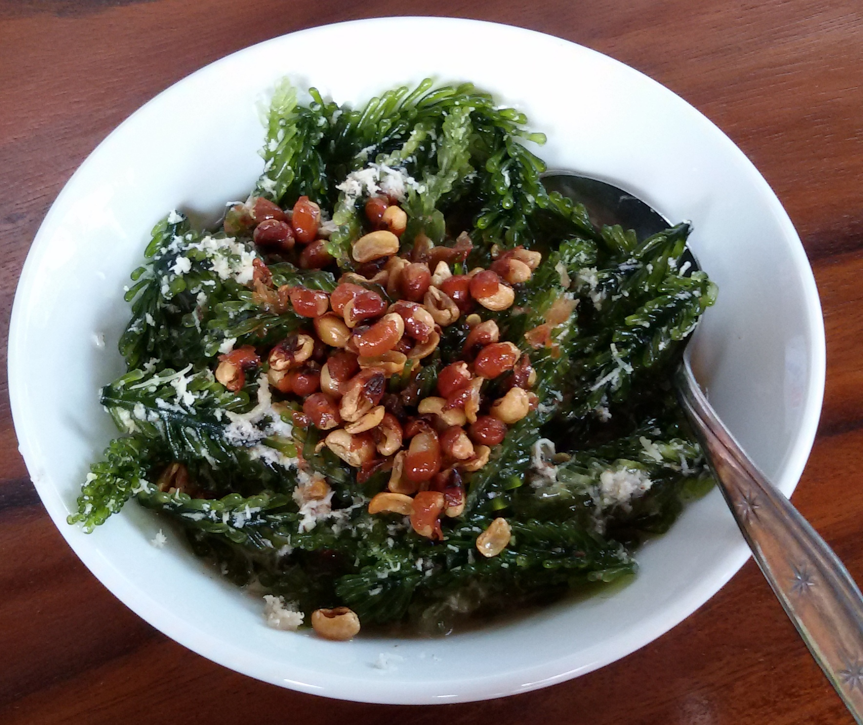 Bulung boni, traditional salty seaweed salad of Bali